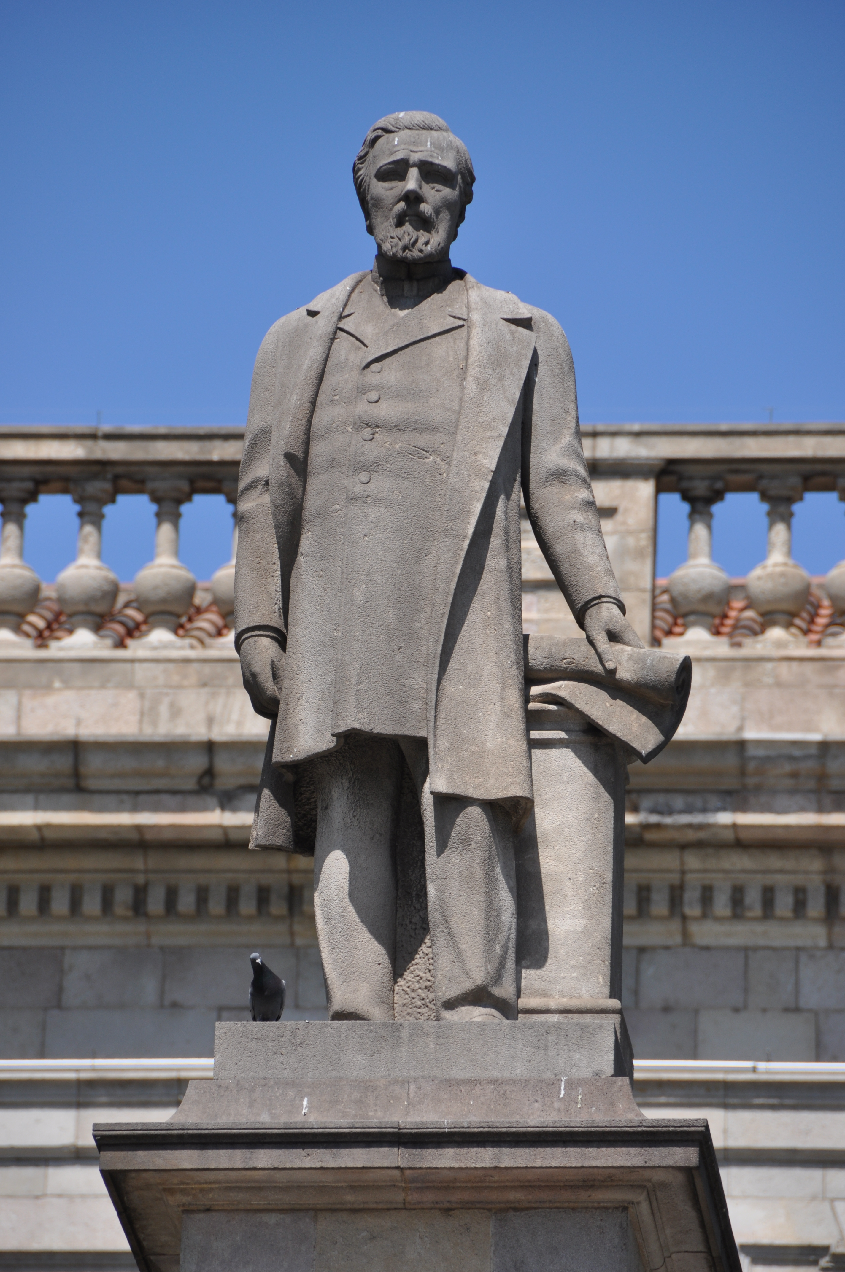 Monument to Antonio Lopez y Lopez, marquis of Comillas. (Barcelona) Frederic Marès sculptor, 1943